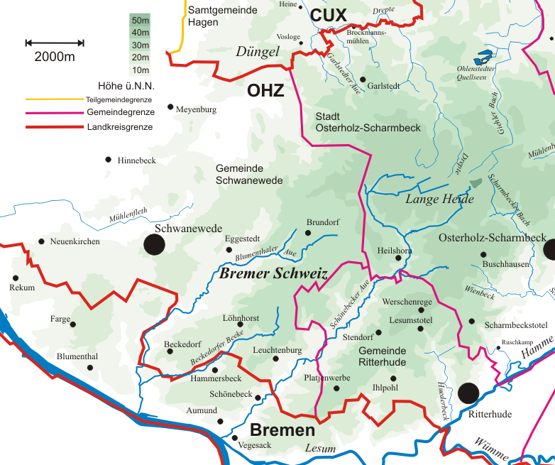 Map of the Bremer Schweiz, part of the Wesermünde Geest, between Bremen-Nord, Osterholz-Scharmbeck and the Weser, Lower Saxony, Germany